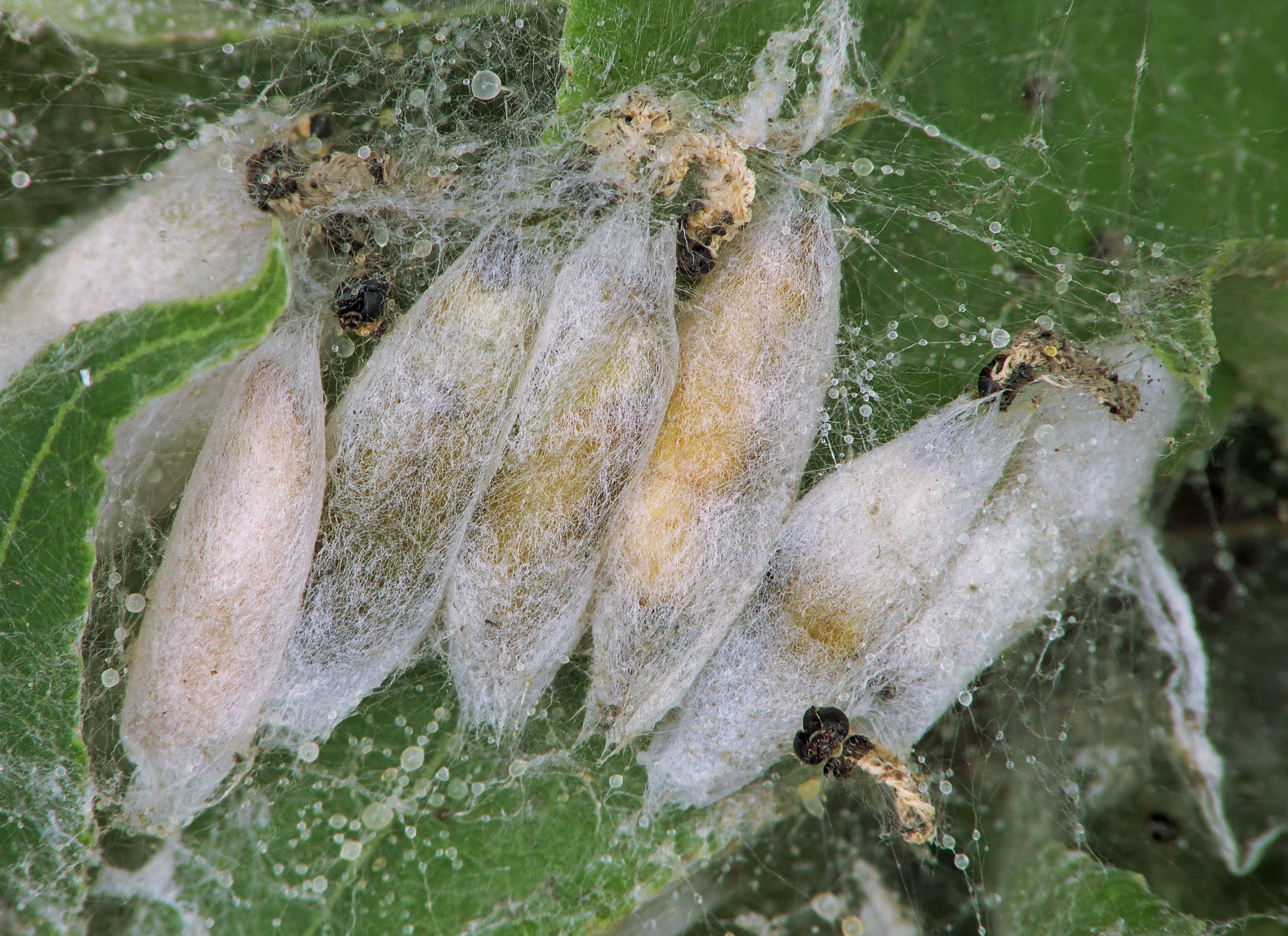 Yponomeuta cagnagella puppae